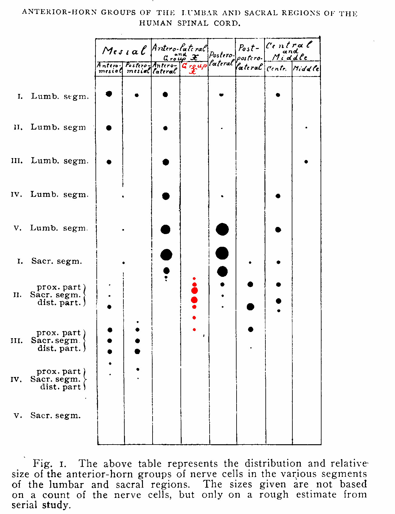 see picture